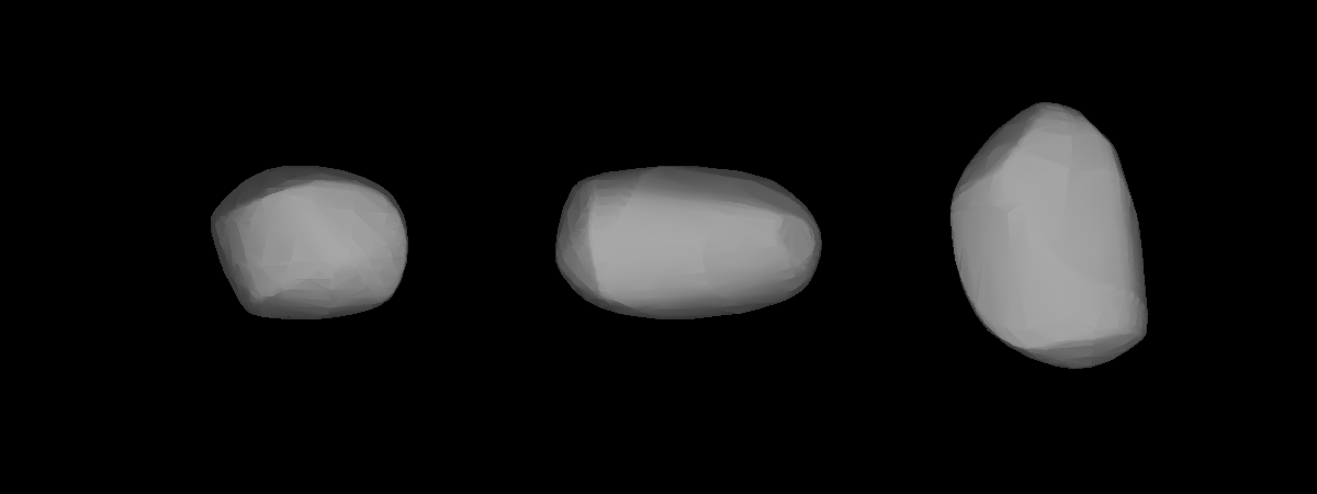 A three-dimensional model of 771 Libera that was computed using light curve inversion techniques.